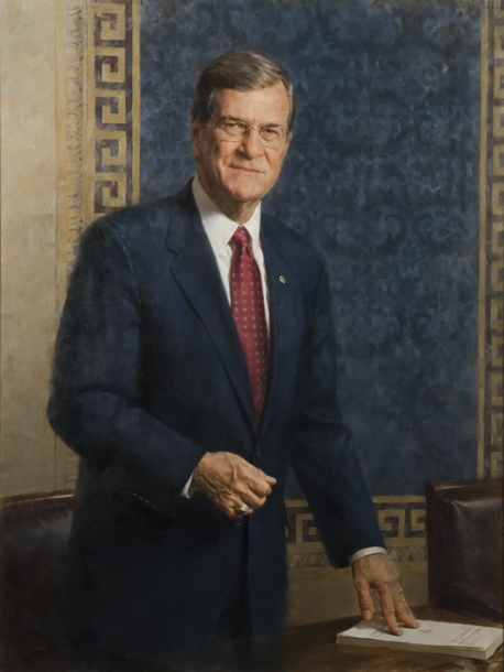 Official Senate portrait of former Majority Leader Trent Lott.